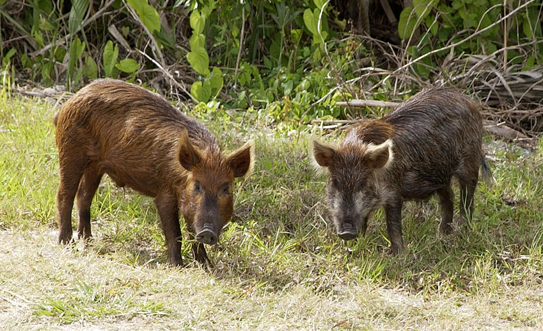 Wild pig (Sus scrofa) stop near the Kennedy Space Center Press Site in the Launch Complex 39 Area on their daily foraging rounds. Not a native in the environment, the pigs are believed to be descendants from those brought to Florida by the early Spanish explorers. Without many predators other than human, the pigs have flourished in the surrounding environs.